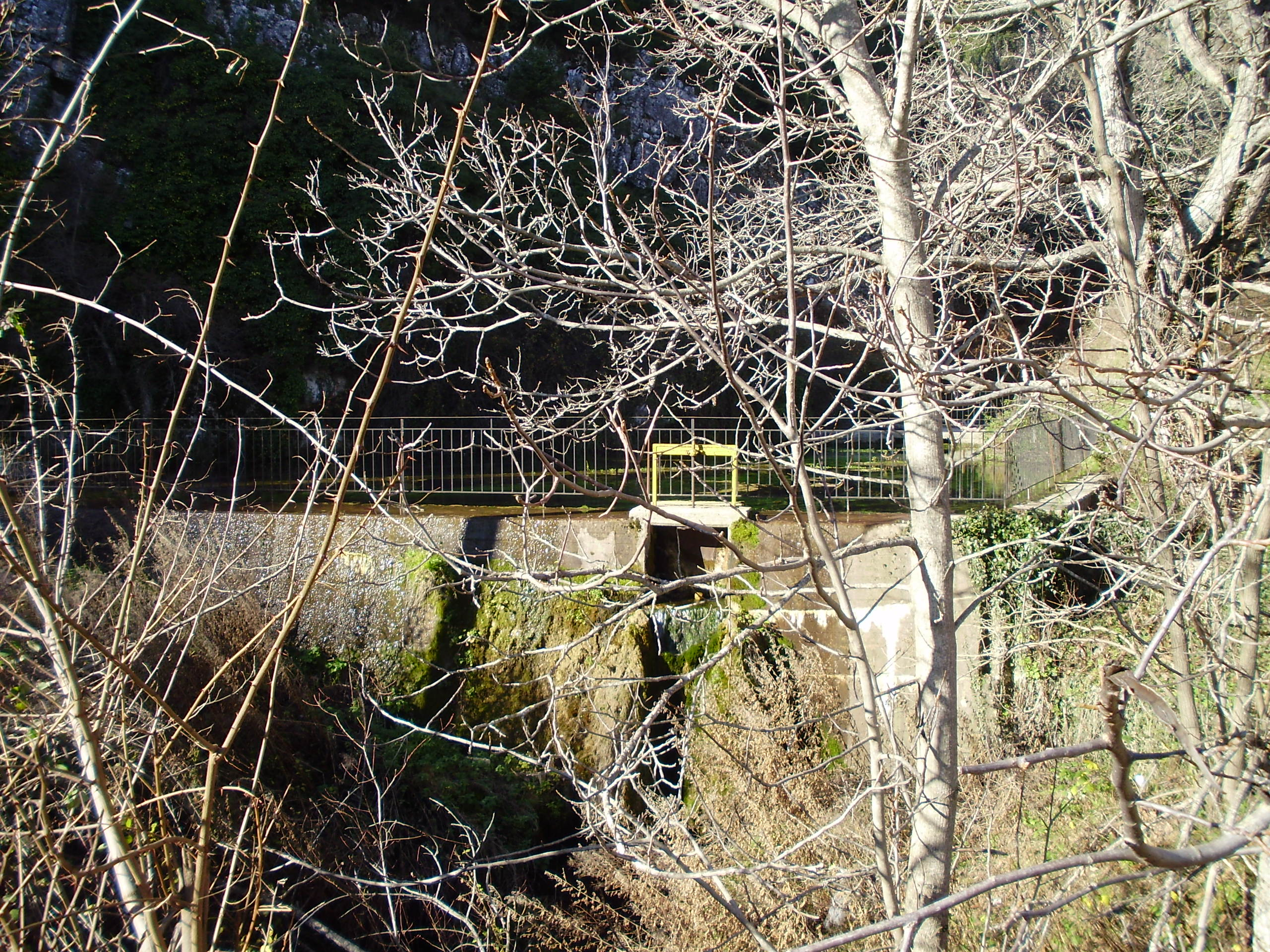 Kaloskopi, Kefalovriso